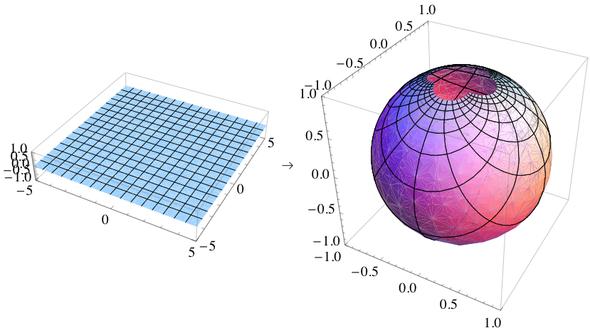 Stereographic projection onto Cartesian plane, made using Mathematica 6.0.1.0